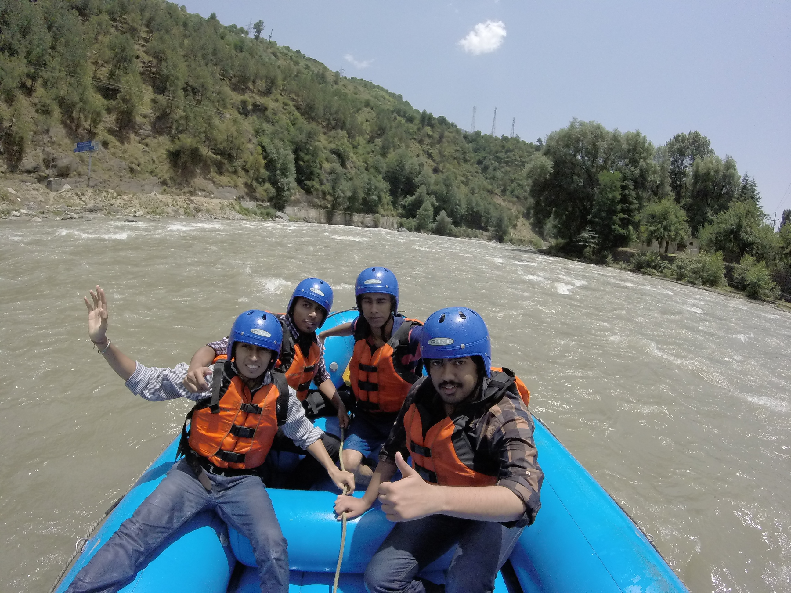 A picture of tourists enjoying rafting on the Beas river in Kullu, Himachal Pradesh